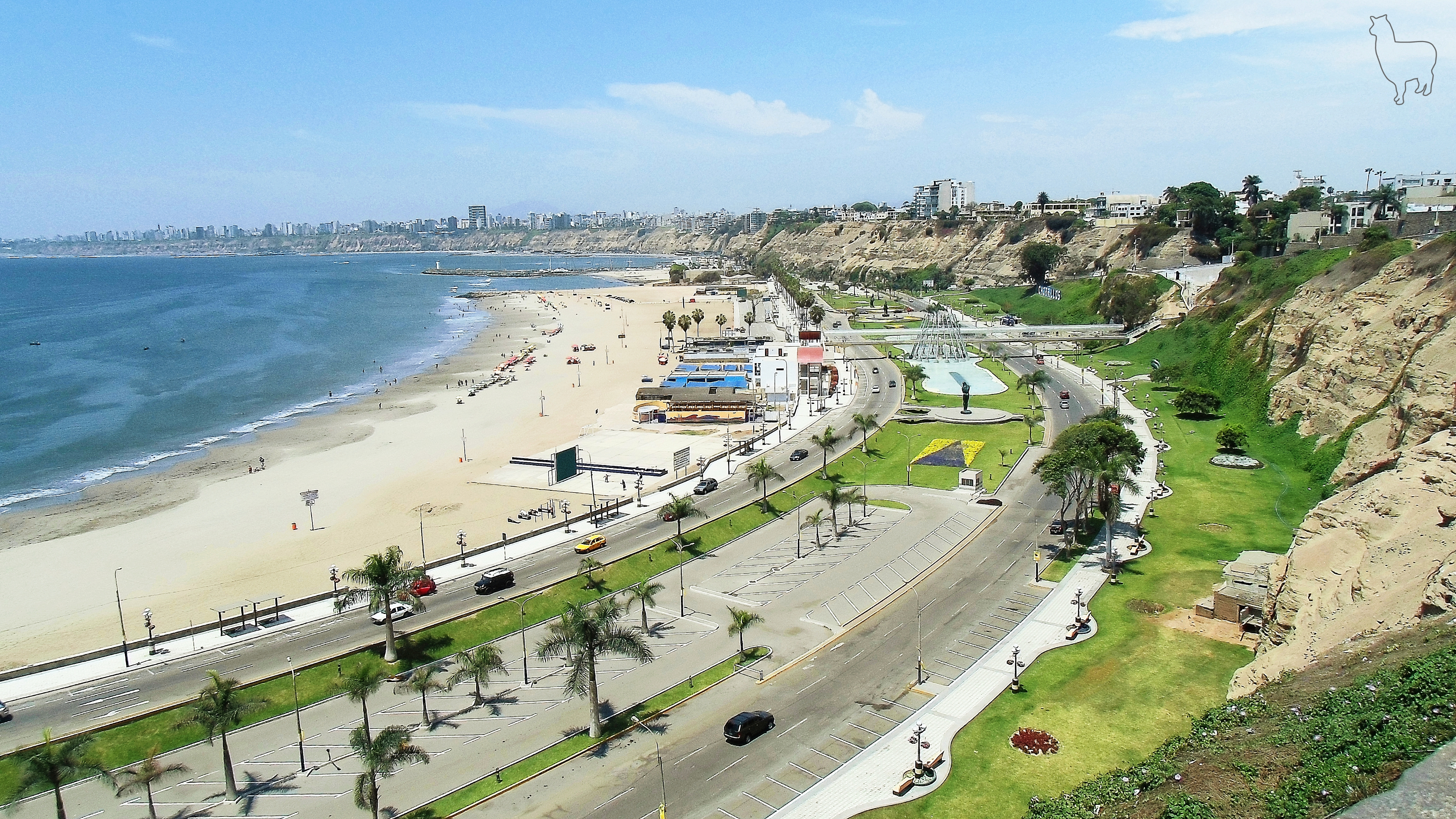 Panorama of Chorrillos, Lima, Peru.